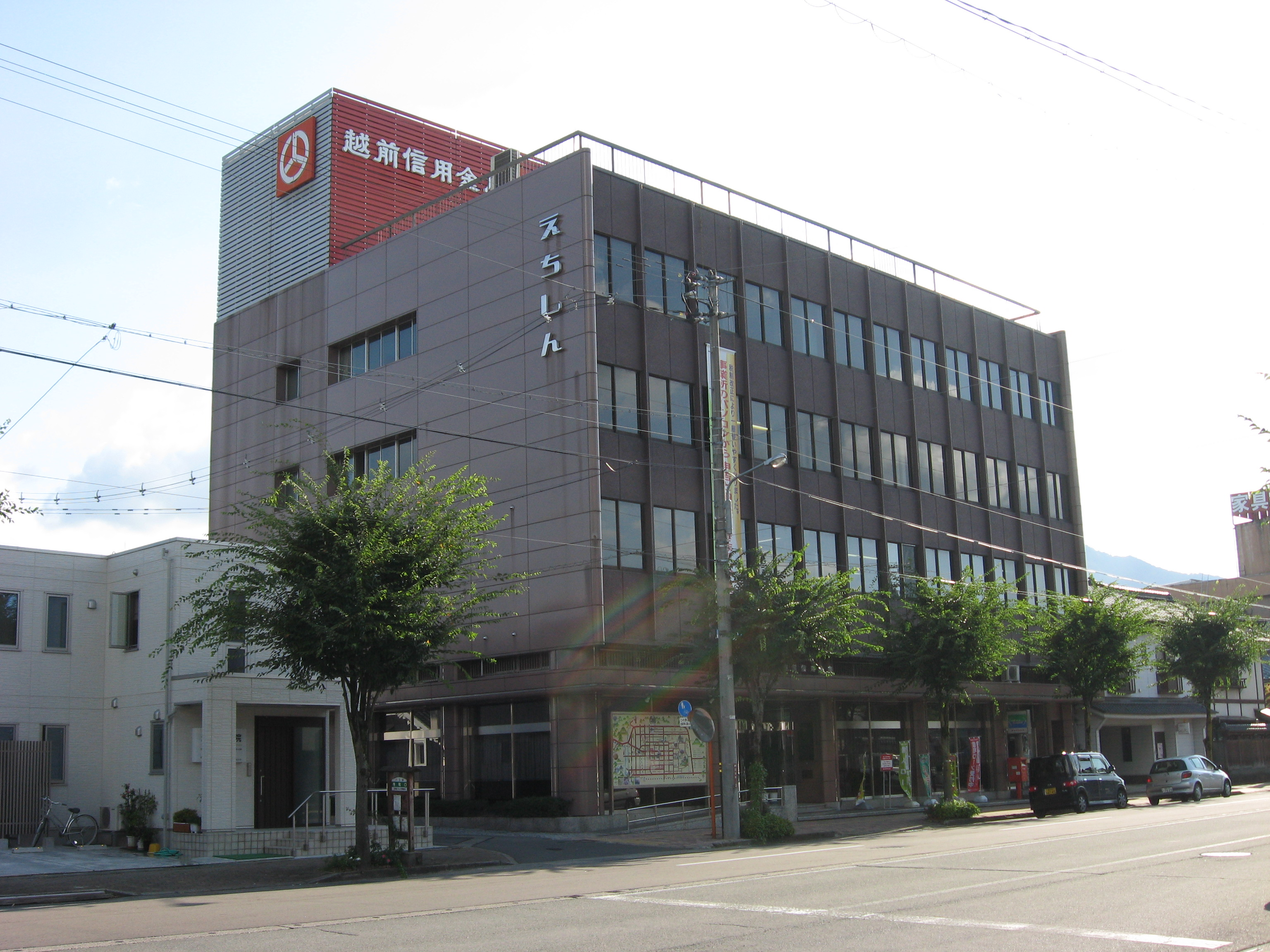 Echizen Shinkin Bank (越前信用金庫) Main Office